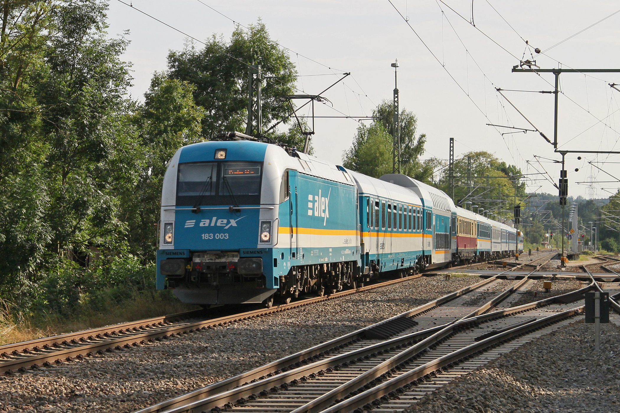 183 003 ALEX in Langenbach Upper Bavaria Germany